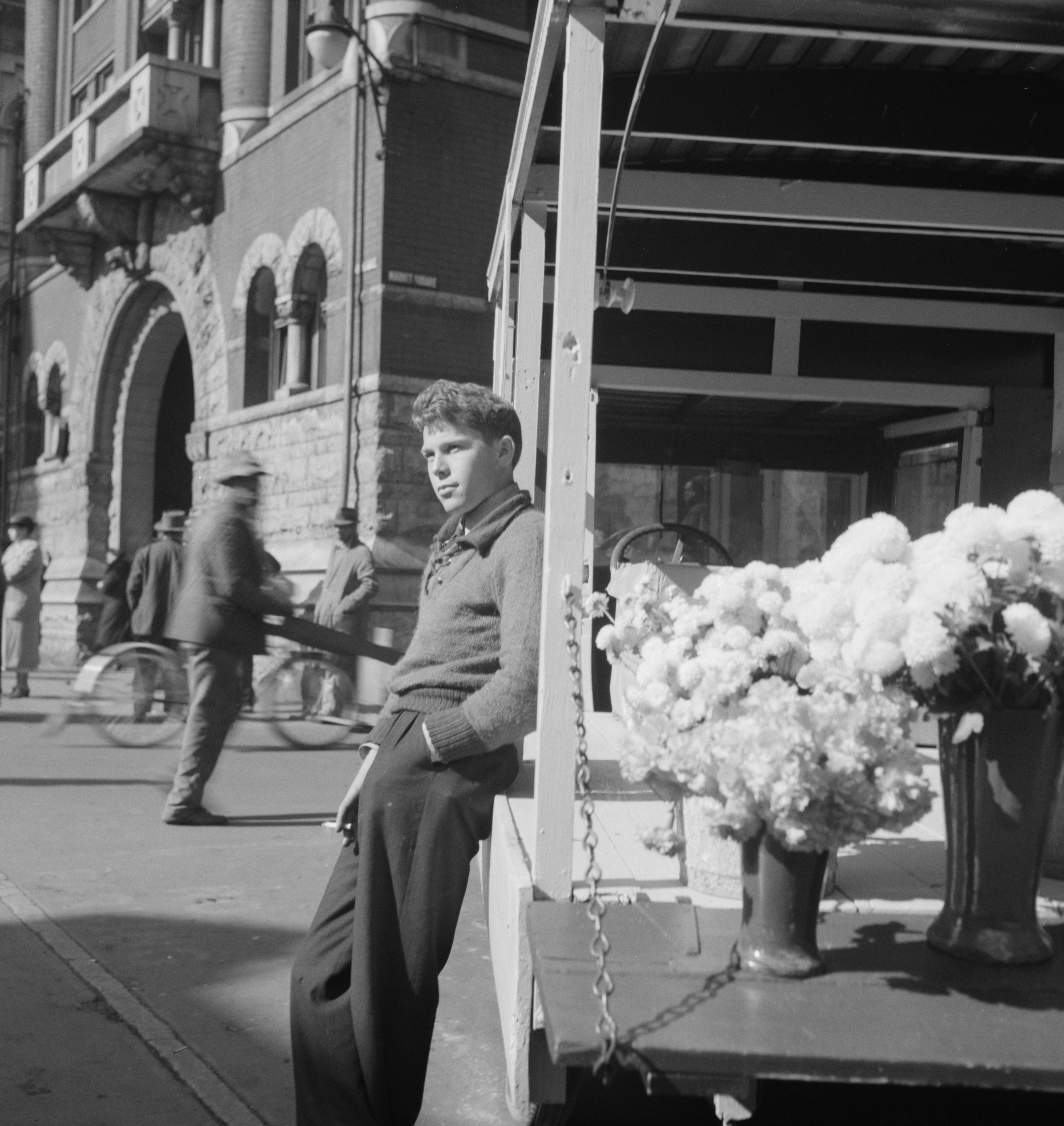 Flower vendor on Market Square in Knoxville, Tennessee, USA, circa 1941. The entrance to the Market House (demolished in 1960) is visible on the left.